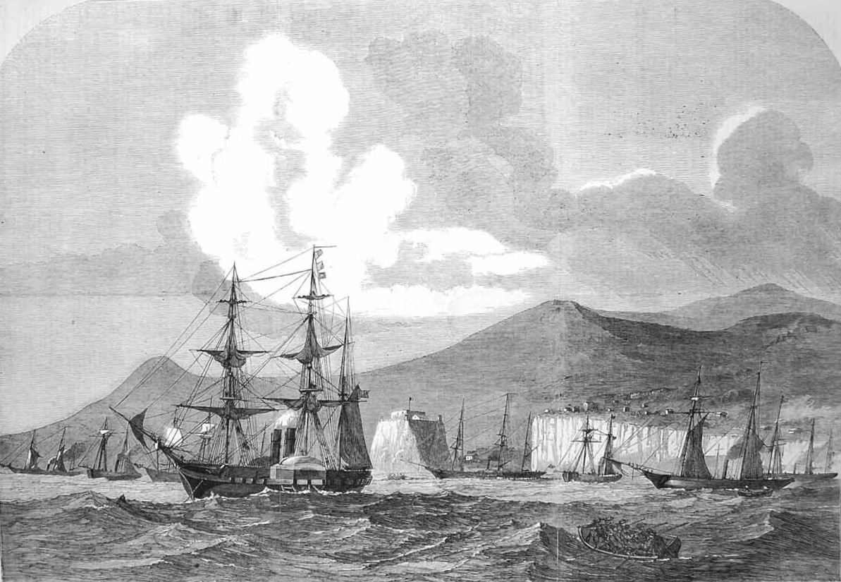 The Illustrated London News, 1857, p. 602 Original caption Arrival of the Gun-Boat Flotilla at Madeira en route for China